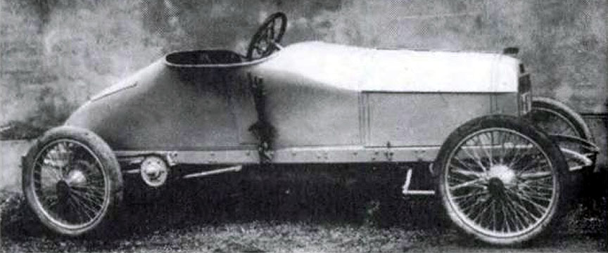 Porsche's car